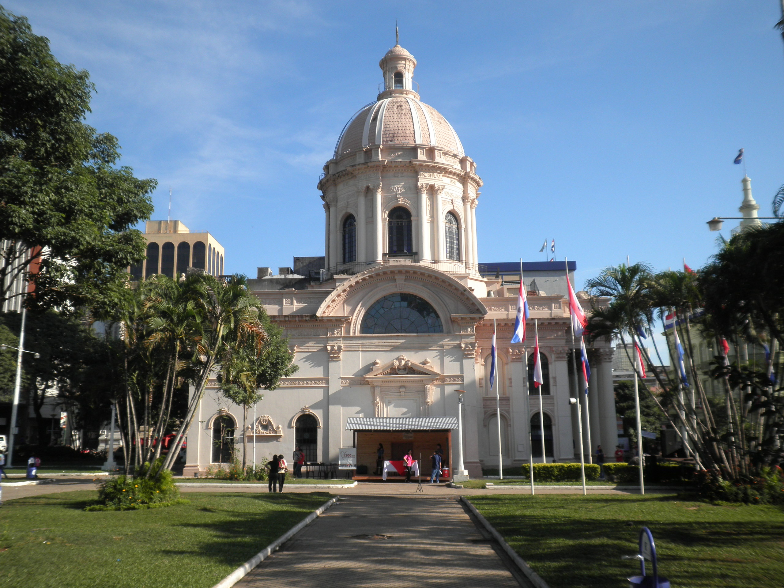 National Pantheon of the Heroes, Asunción, Paraguay